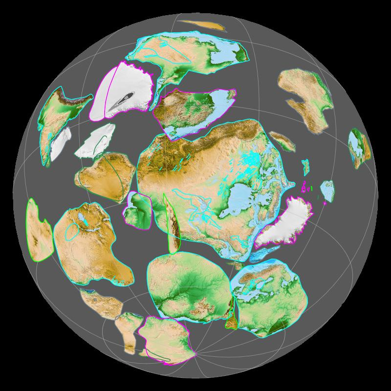 The supercontinent Rodinia 900 million years ago. Reconstruction from Li et al. 2008. View centred on -30,130. Continents are Laurentia in the middle and (clockwise from top) Tarim, Australia, South China, Siberia, North China, Arctic blocks, Rockall, Chortis, Baltica, Oaxacia, Amazonia, Pampia, West Africa, Hoggar, Sao Francisco, Congo, Sahara, Rio de la Plata, Kalahari, Dronning Maud Land, Rayner, India, Mawson (East Antarctica). Made using GPlates and datasets included here: Li, Z. X.; Bogdanova, S. V.; Collins, A. S.; Davidson, A.; De Waele, B.; Ernst, R. E.; Fitzsimons, I. C. W.; Fuck, R. A.; Gladkochub, D. P.; Jacobs, J.; Karlstrom, K. E.; Lul, S.; Natapov, L. M.; Pease, V.; Pisarevsky, S. A.; Thrane, K.; Vernikovsky, V. (2008). "Assembly, configuration, and break-up history of Rodinia: A synthesis". Precambrian Research. 160 (1–2): 179–210.